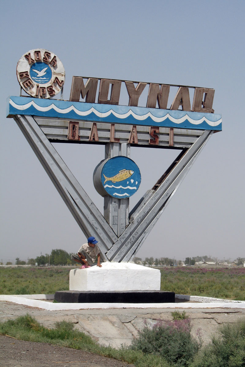 The entrance of Moynaq, Uzbekistan.